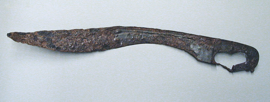 Greek; Sword, machaira; Miscellaneous-Iron